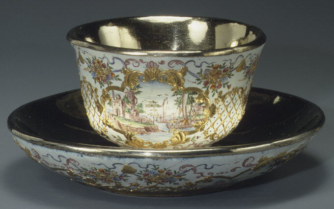 German, Berlin; Cup and saucer; Enamels-Painted